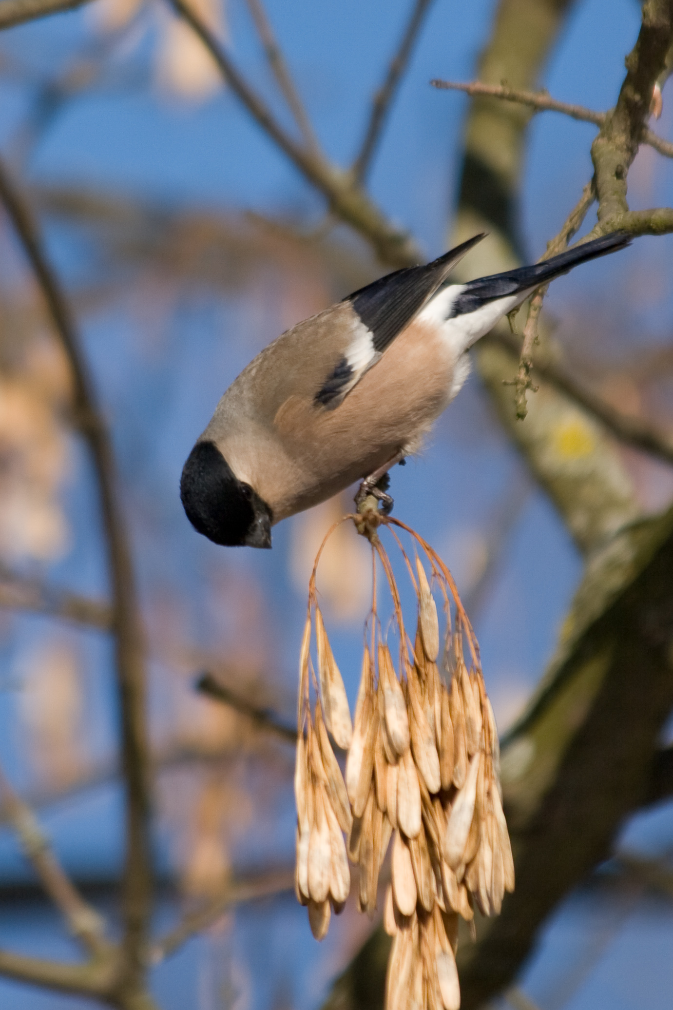 Pyrrhula pyrrhula female